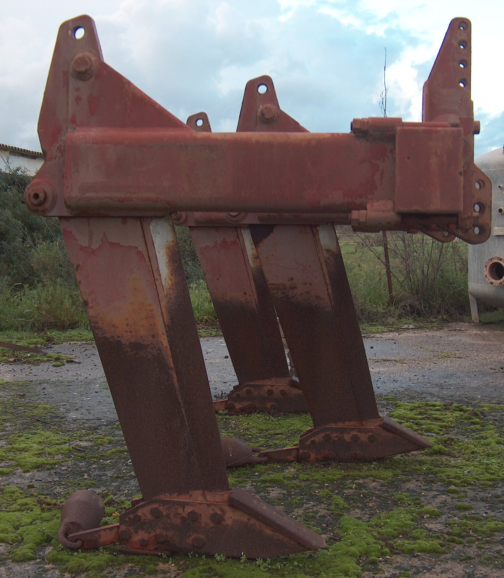 Ripper tillage – Professional Institute of Agriculture and Environment "Cettolini" of Cagliari (Sardinia, Italy) - Associated School of Villacidro (Sardinia, Italy)